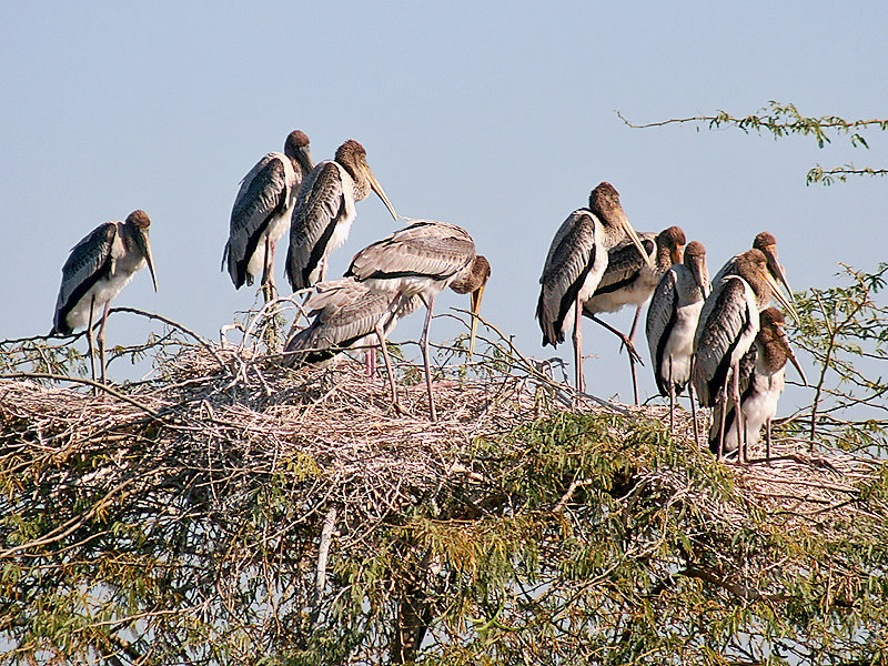 Painted Stork Mycteria leucocephala at Bharatpur, Rajasthan, India.